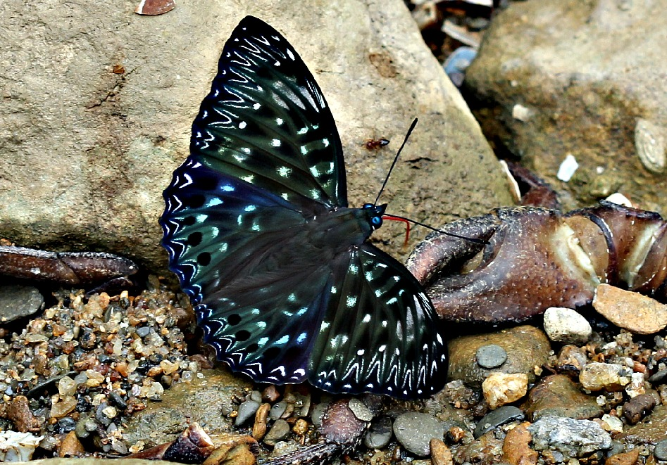 Constable at south garo hills meghalaya